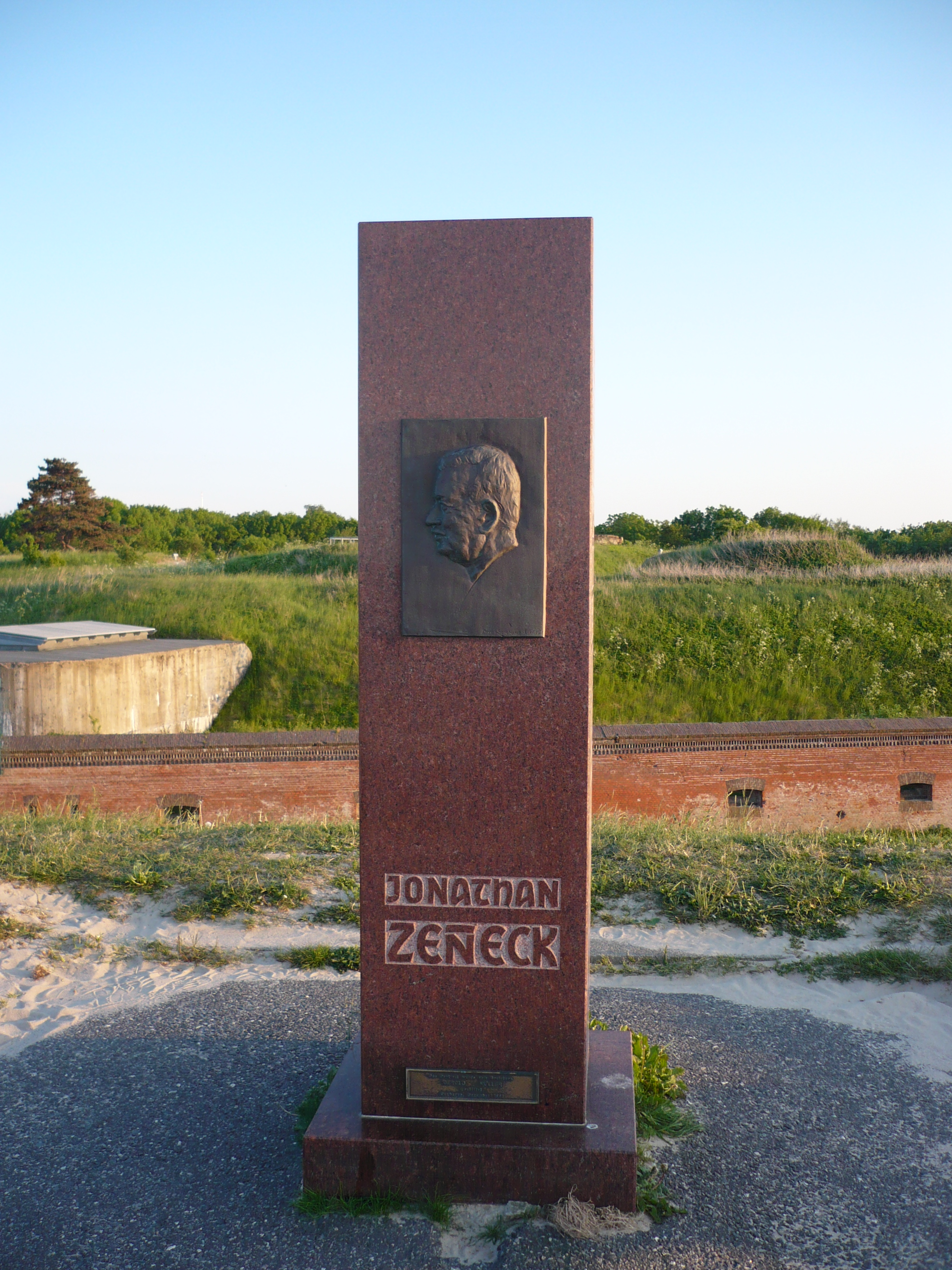 Memorial Jonathan Zenneck in Cuxhaven, May 2008